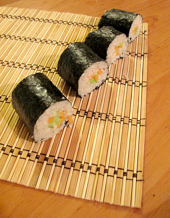 Chumaki Sushi